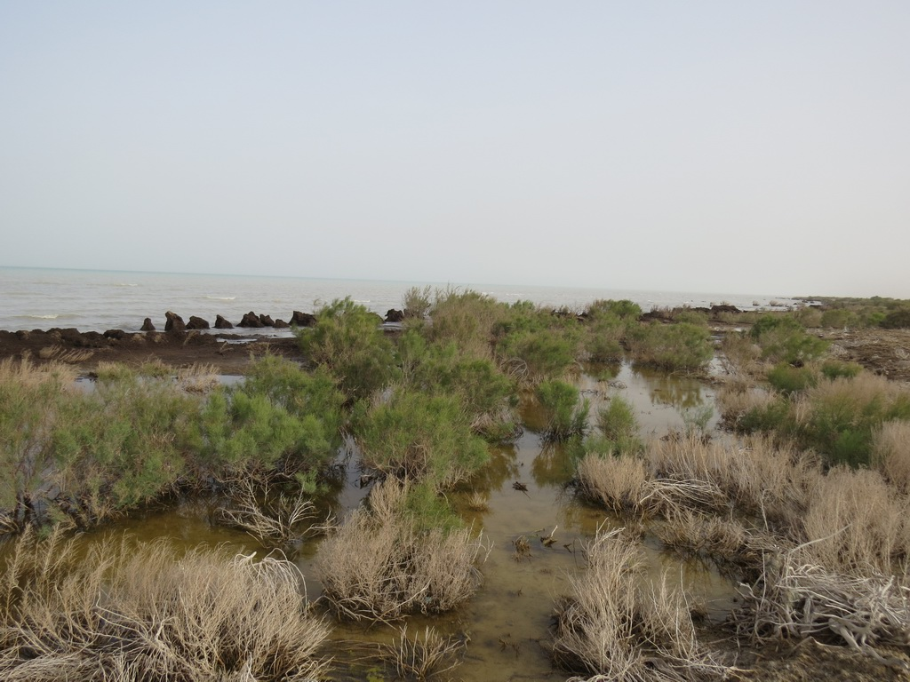 Sarykamysh lake, by courtesy of ecoport.uz